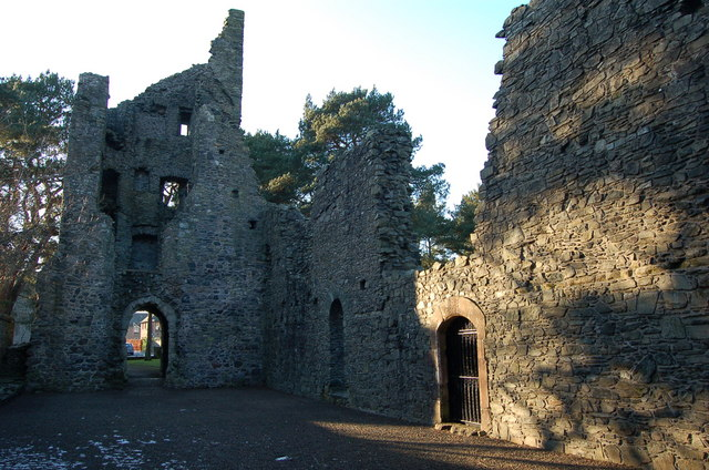 Cross Kirk The church dates from 1261, and a Trinitarian Priory was founded there over 200 years later (Exploring Scotland's Heritage, J R Baldwin, HMSO Edinburgh 1989).